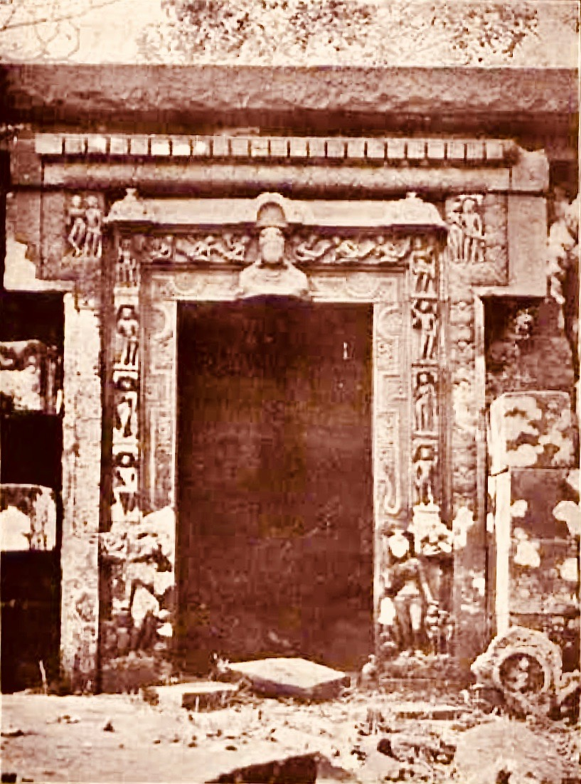 This is one of the oldest stone temple dedicated to Shiva of Hindu tradition. Dated to the 5th century, the temple has a square plan for the sanctum, mandapa and overall complex. When discovered over 1917 - 1919, it was in ruins, the sanctum was covered with forest and there was mound in front. Excavation of the mound yielded broken pillars, temple parts and desecrated statues with their face and limbs chopped off. The sculpture and walls carvings are intricate. Many of its ruined parts and statues are now at major museums in India and elsewhere. The temple is the source of one of the oldest known Ganesha relief. The temple sanctum has an ekamukha linga, much studied by scholars. Additionally, the temple includes Durga in her Mahishasura-mardini form, Surya, Ganesha, Kartikeya, Kama, and other Hindu gods and goddesses. This is a photograph of a personal copy of the plates in an Archaeological Survey of India progress report published in 1920, whose copyrights have expired worldwide. Any rights I have, I donate it to wikimedia under its Creative Commons 4.0 guidelines.